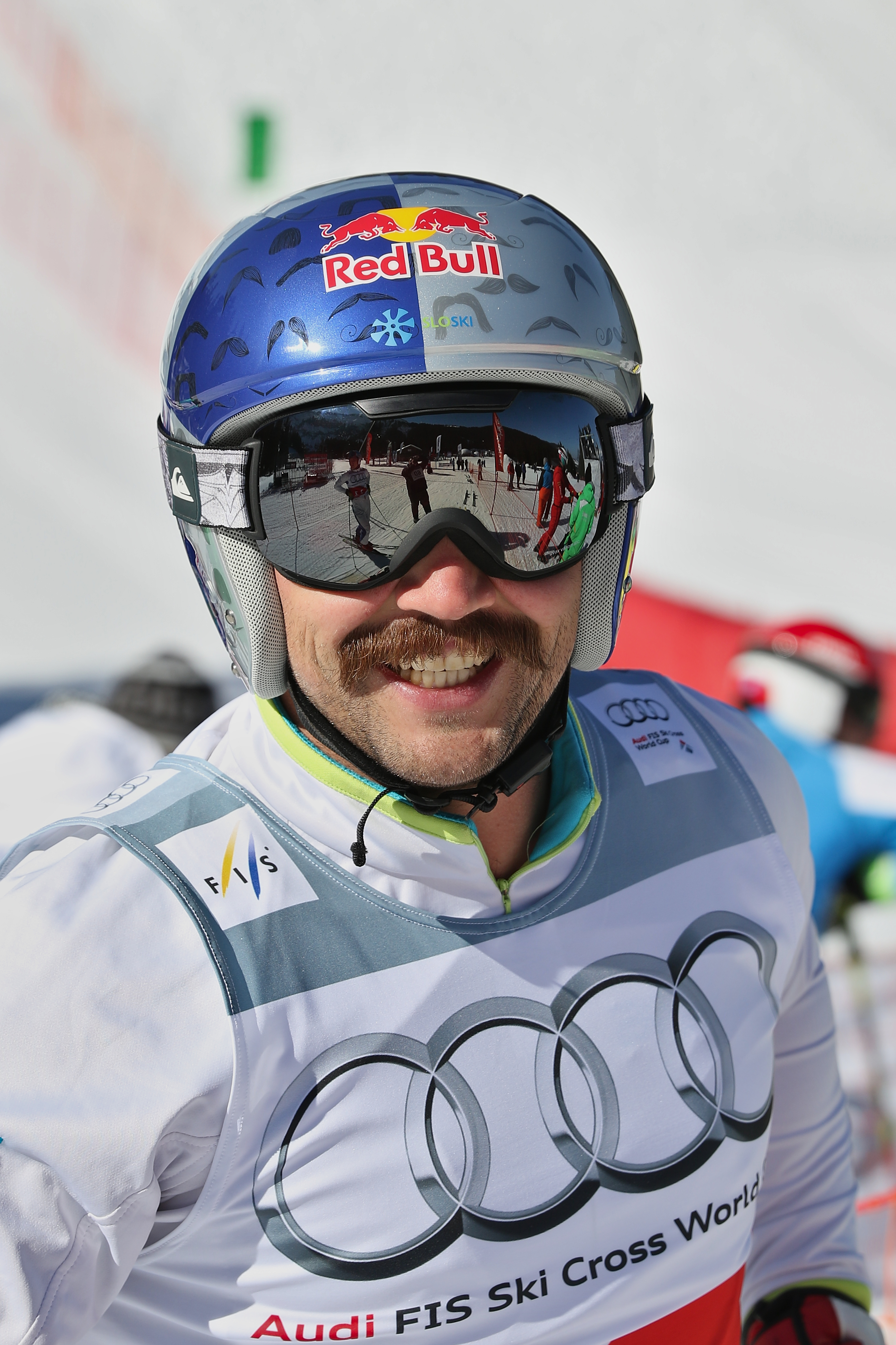 FIS Ski Cross World Cup 2015 - Megève - 20150313 - Filip Flisar